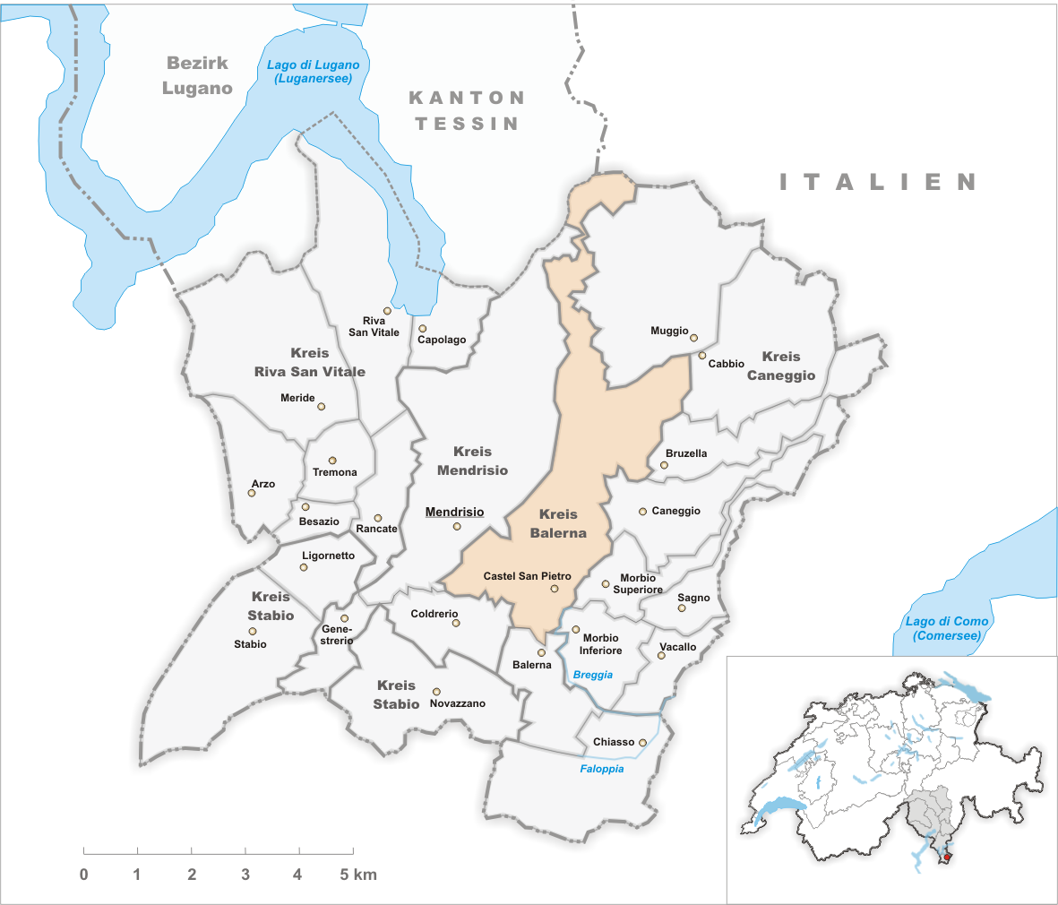 Municipality Castel San Pietro